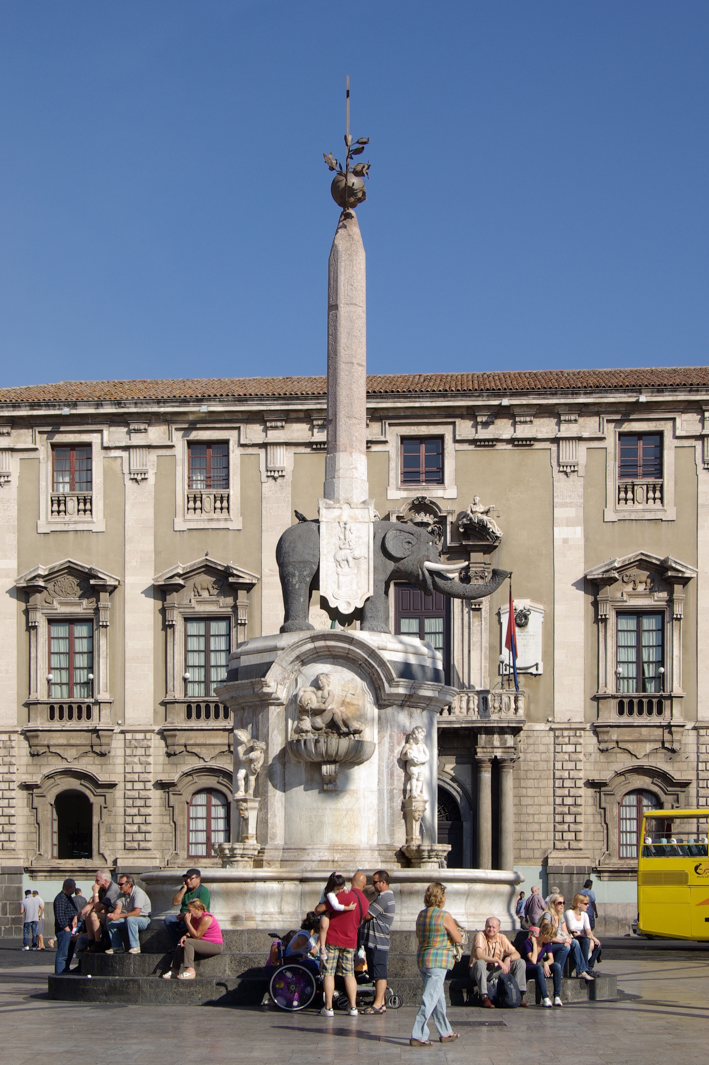 Italy, Sicily, Catanaia, elephant welll